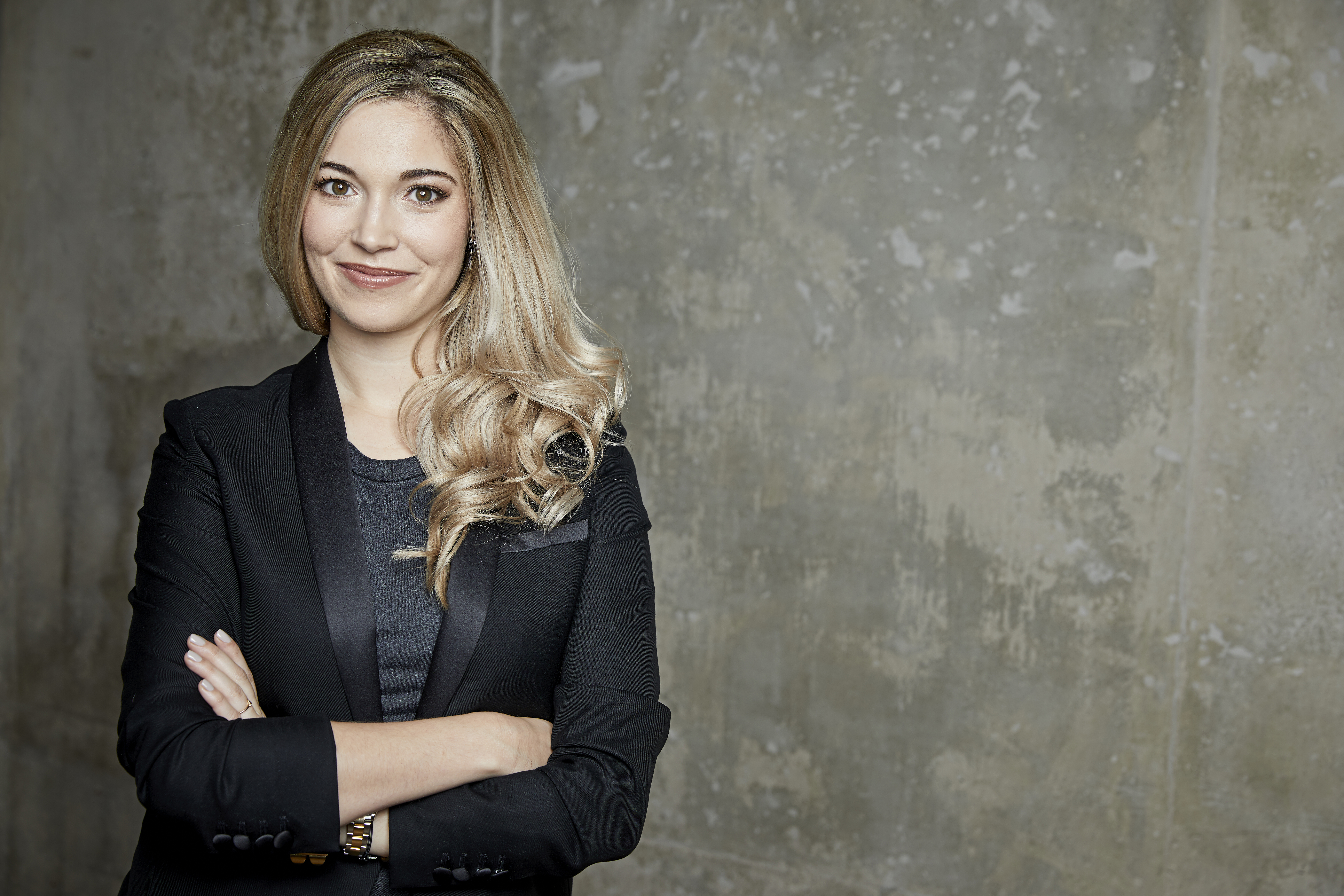 Julia Shaw, German-Canadian psychologist